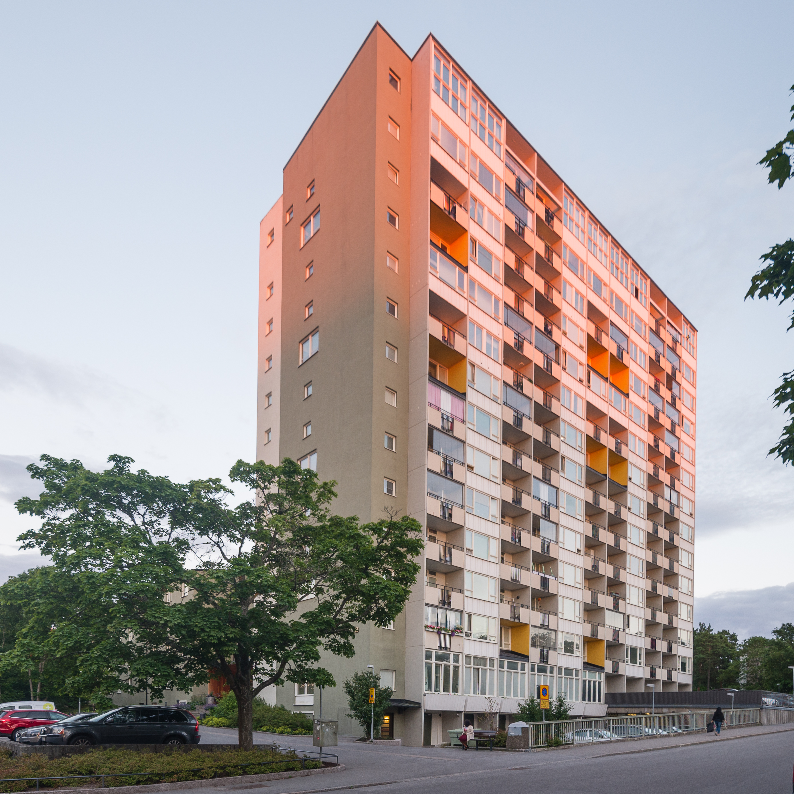 Ungdomshotellet in Hässelby gård. Built 1957, architect Hjalmar Klemming.